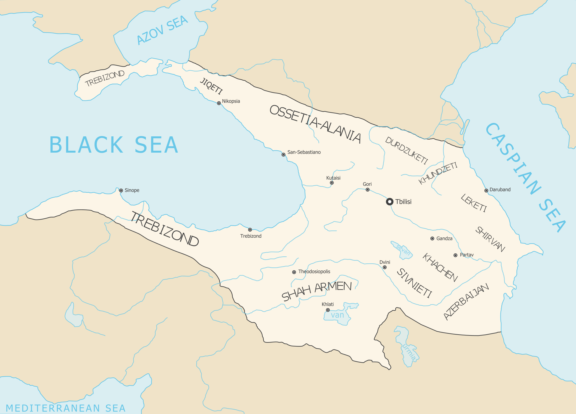 Territory controlled and acquired by Georgians under the rule of Tamar Queen.